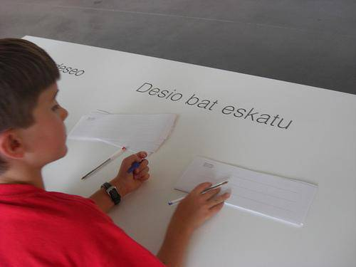 Pide un Deseo (make a wish), expo by Ana Soler Baena, at Centro Huarte de Arte Contemporáneo. Navarre 2008. Panel reads "Desio bat eskatu", make a wish in Basque, so people collaborate with the artwork